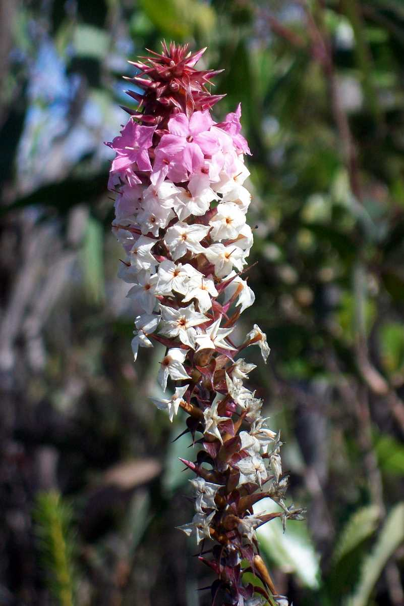 Wildflower at Blue Mountains National Park, near Woodford. Woollsia pungens